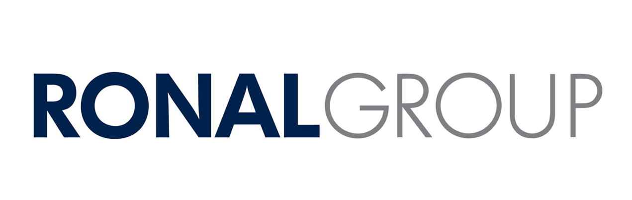 The RONAL GROUP Logo which is used by the company since 2013.